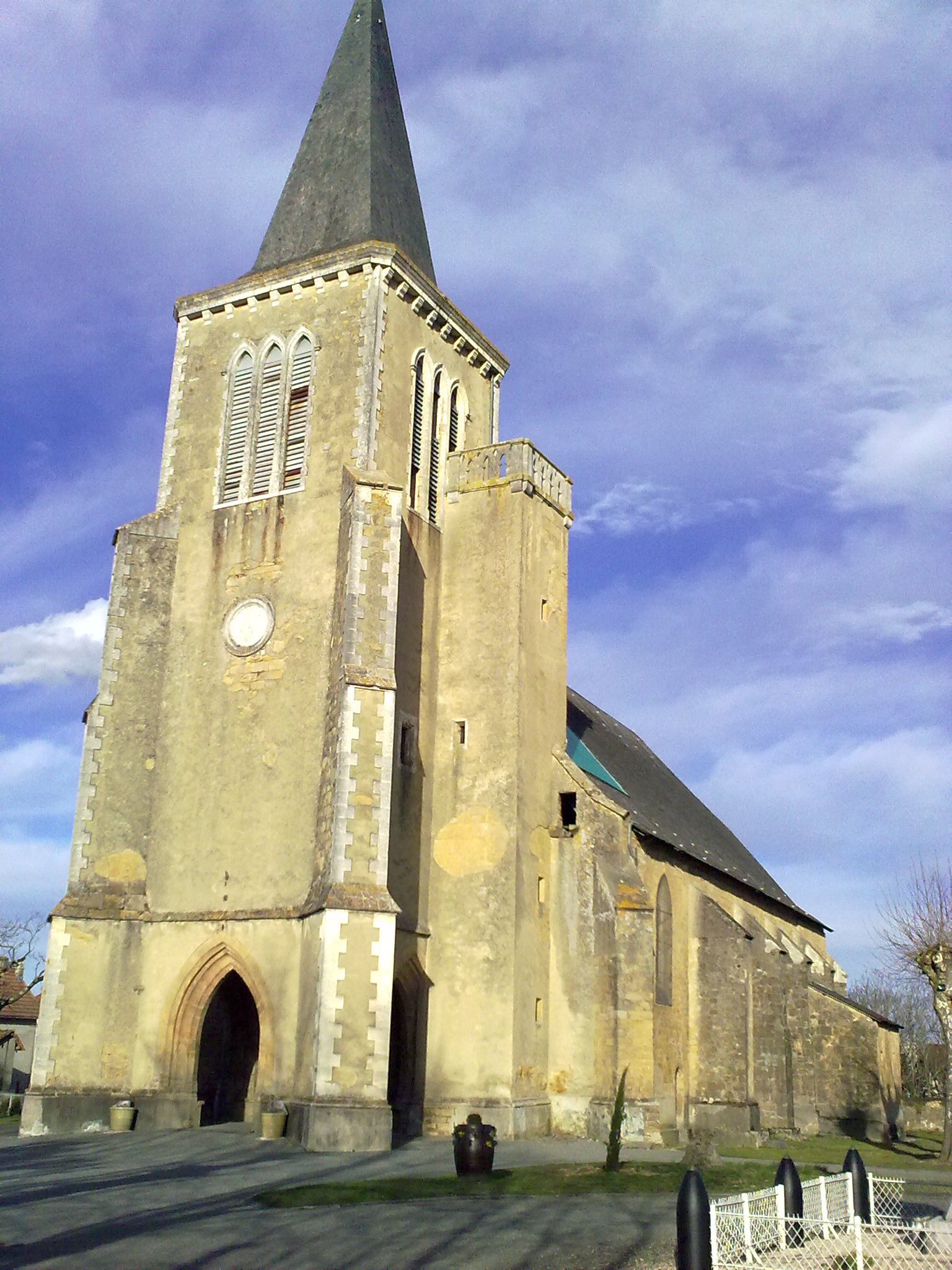 Church of Lembeye